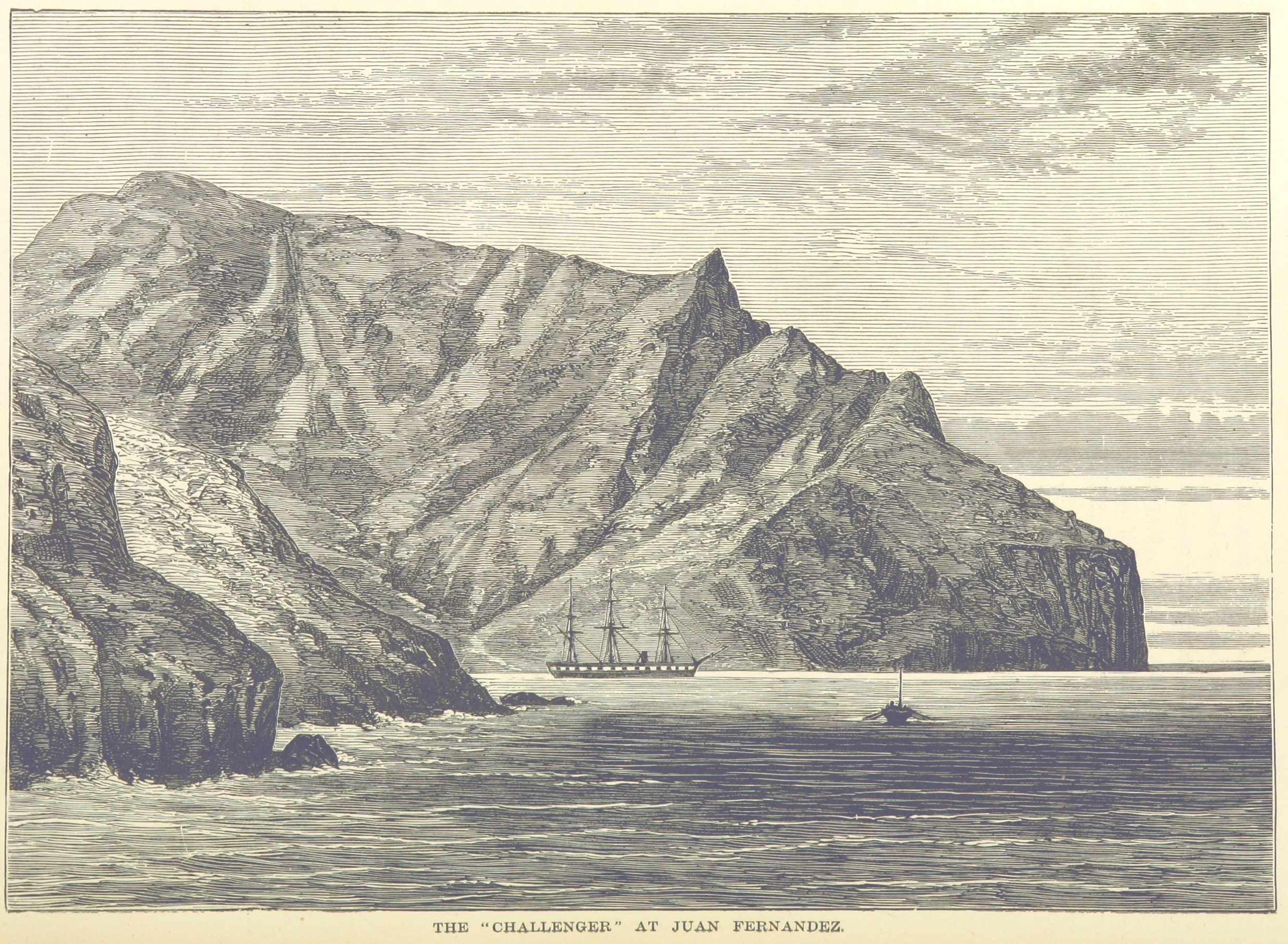 During the Challenger expedition, HMS Challenger stops at Juan Fernandez.